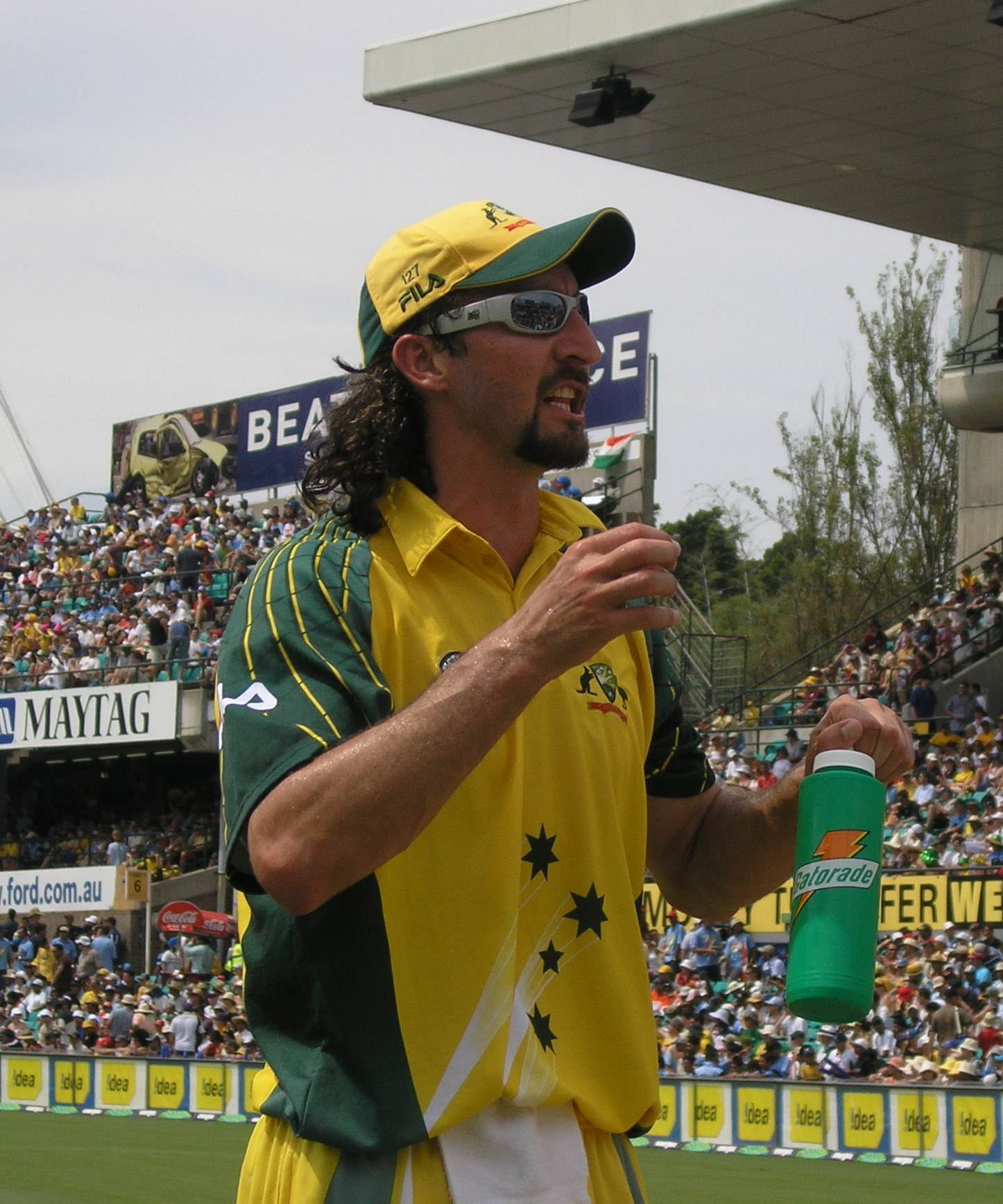 Portrait of Jason Gillespie, SCG, Jan 23, 2004 (Aus vs India ODI). Taken by myself (Allan Steel). As this photo was being taken, Gillespie was saying to some Indians in the crowd: "Hey, do any of you Indians have a lolly?". In the previous match, R. Dravid had been caught doing dubious things to the cricket ball with a lolly in his pocket.